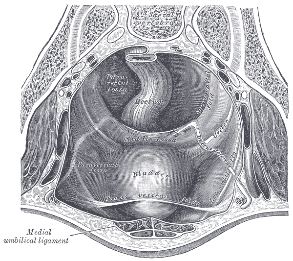 The peritoneum of the male pelvis. (Dixon and Birmingham.)